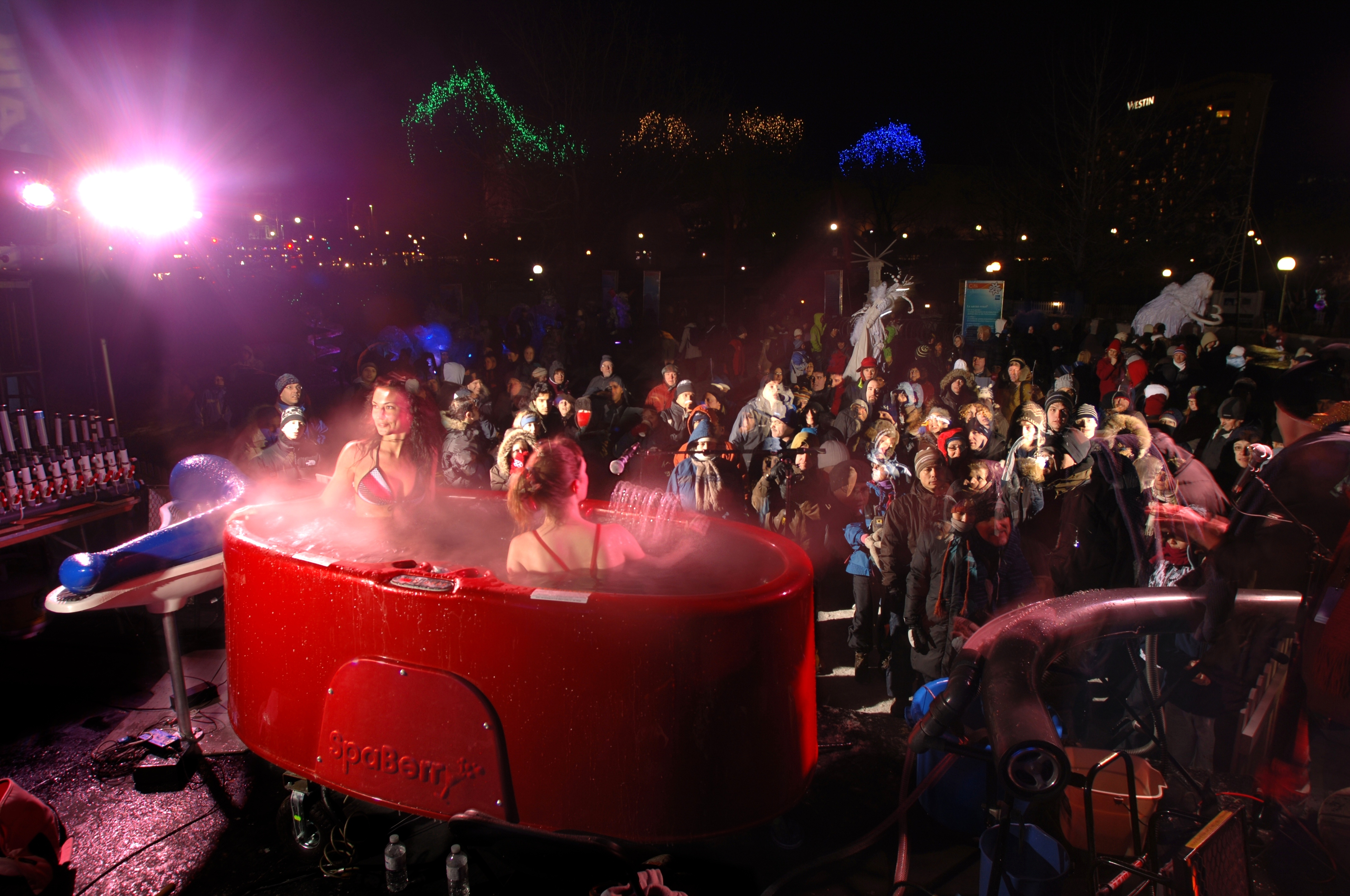 H2Orchestra performing for the National Capital Commission on Balnaphone (hydraulophone built into a SpaBerry) at Winterlude 2010